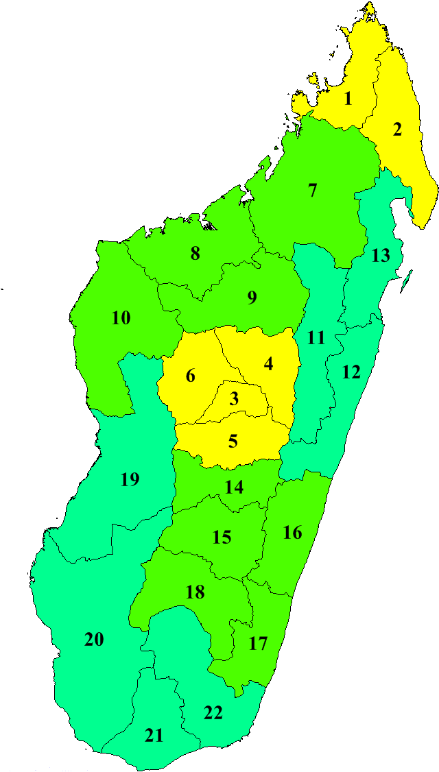 Map of the regions in Madagascar